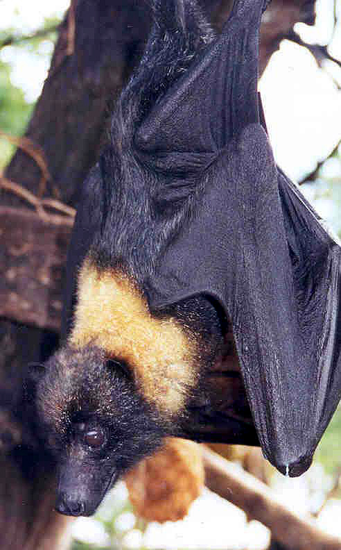 WOE 92 Mariana Fruit Bat, Pteropus mariannus mariannusEnglish Wikipedia, original upload 18 August 2005 by ZeWrestler and edited and reuploaded by Fir0002 (there's one brighter version at Image:Mariana Fruit Bat.jpg)